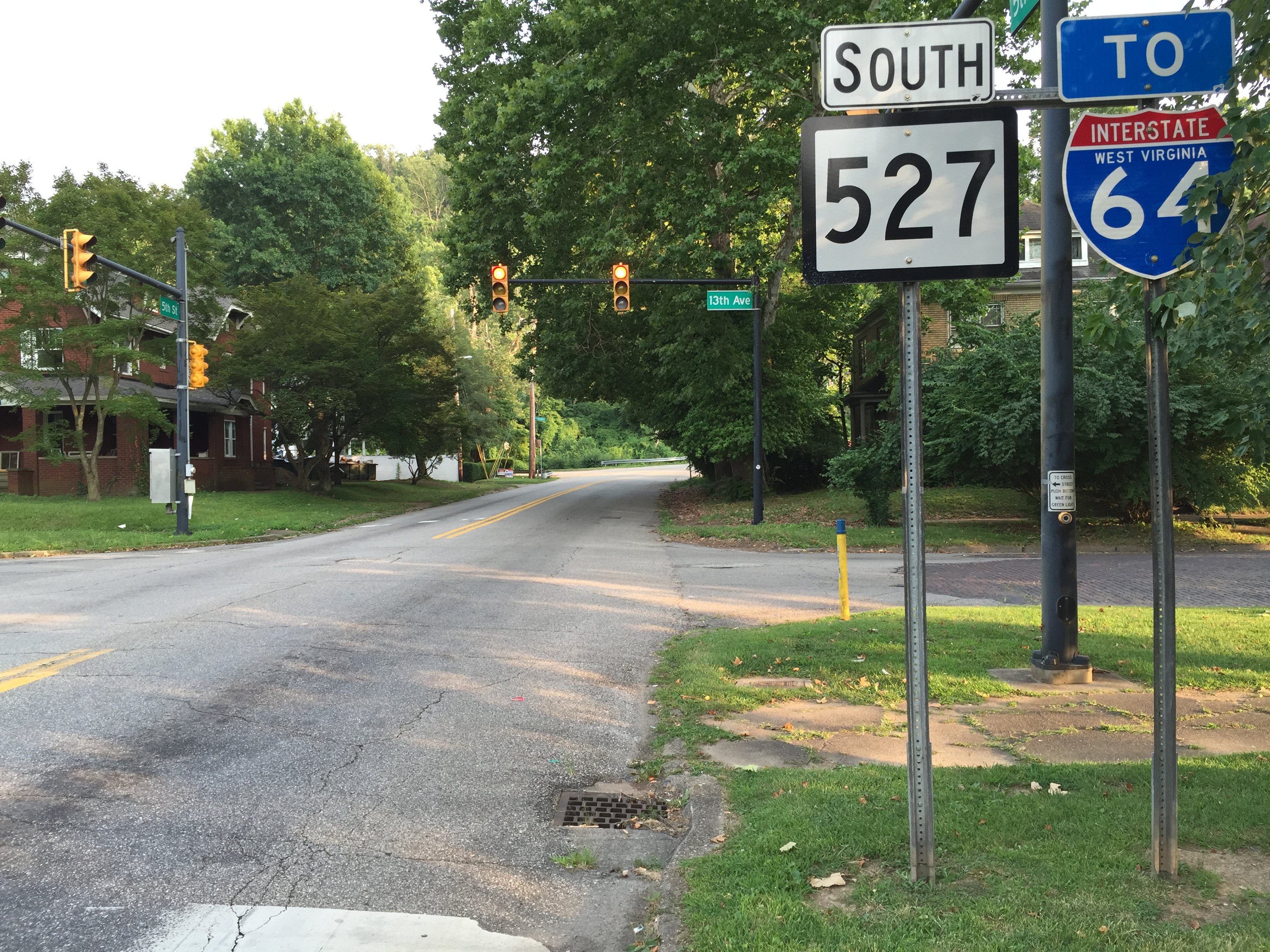 View south along West Virginia State Route 527 (Fifth Street Road) at 13th Avenue in Huntington, Cabell County, West Virginia